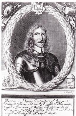 Portrait of Marmaduke Roydon (1583–1646), English merchant.